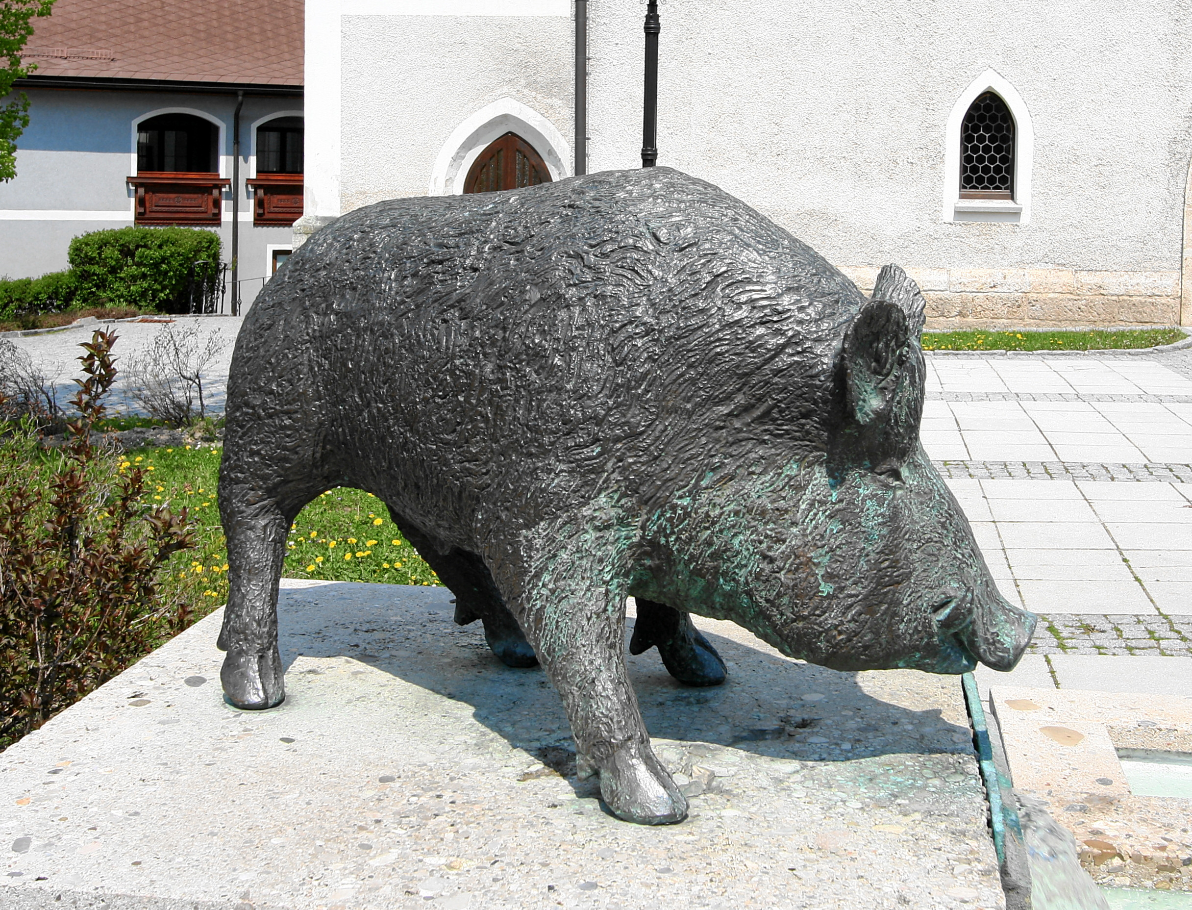 A boar (male pig, in German "Eber"), the symbol of Eberschwang